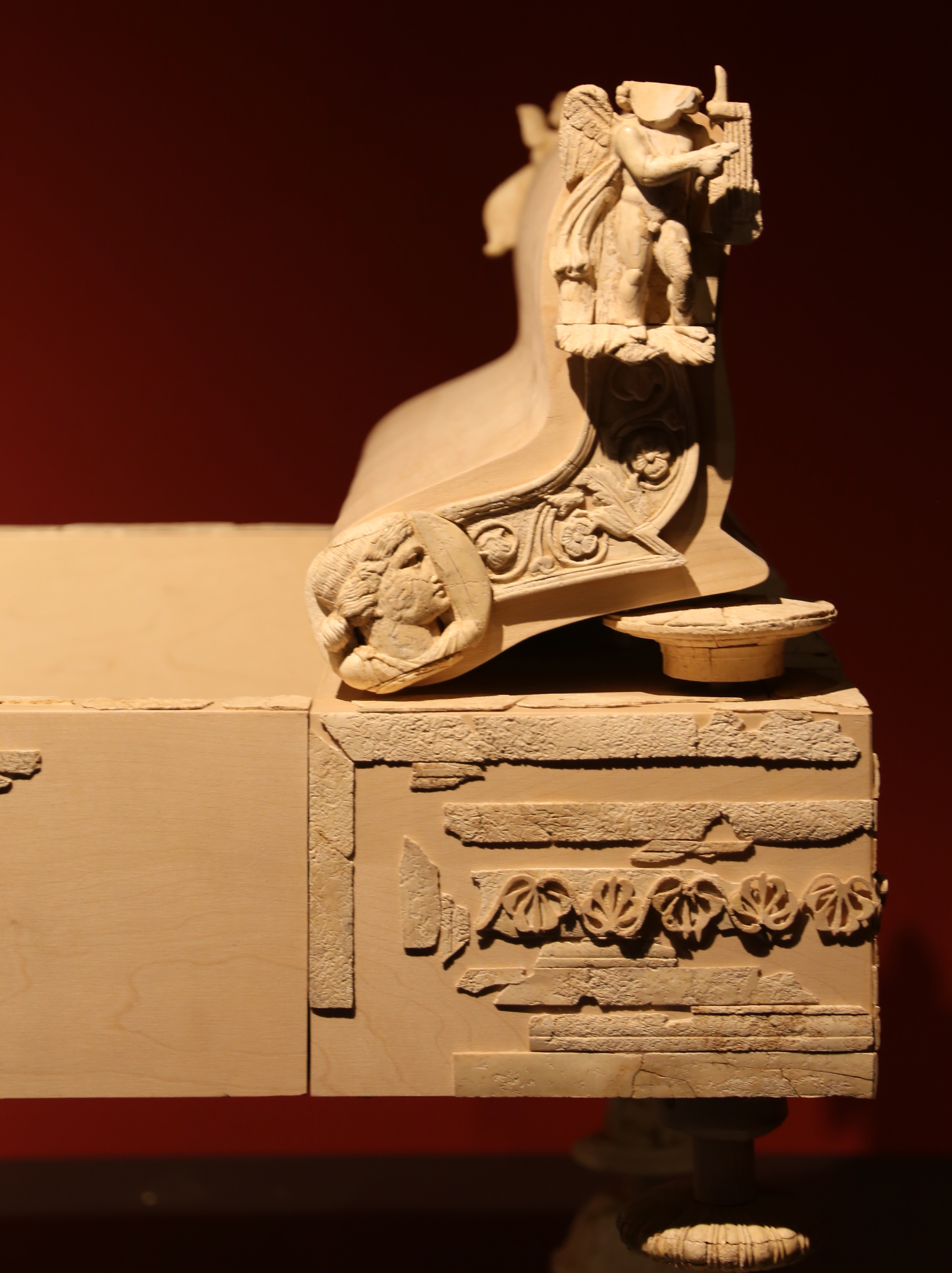 Ancient Roman ivory in the Museo archeologico nazionale d'Abruzzo